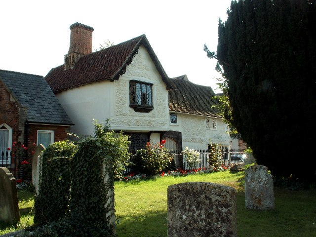 The Ancient House in Clare, Suffolk, England. A Grade I listed house.